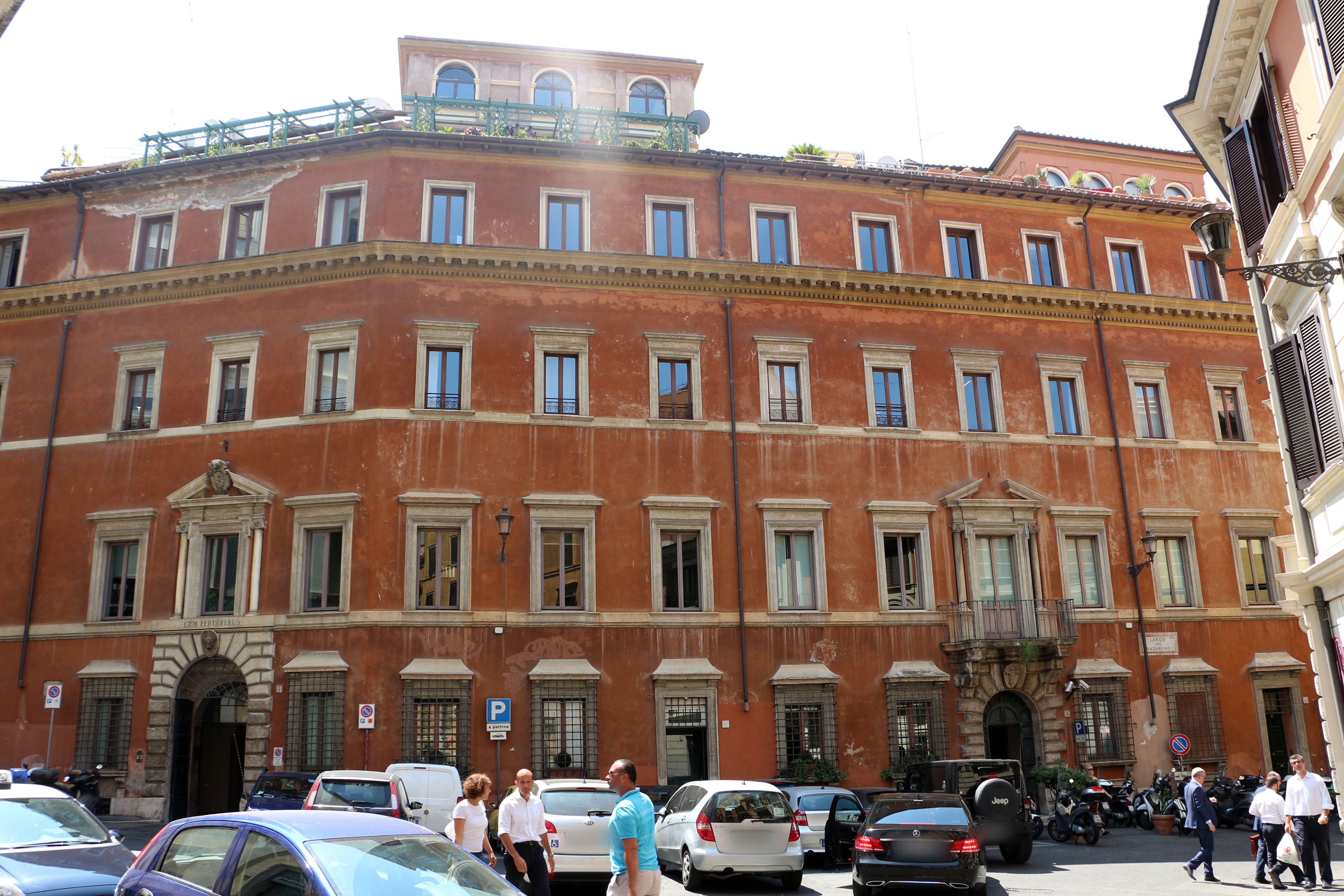 Palazzo Del Bufalo (Rome)